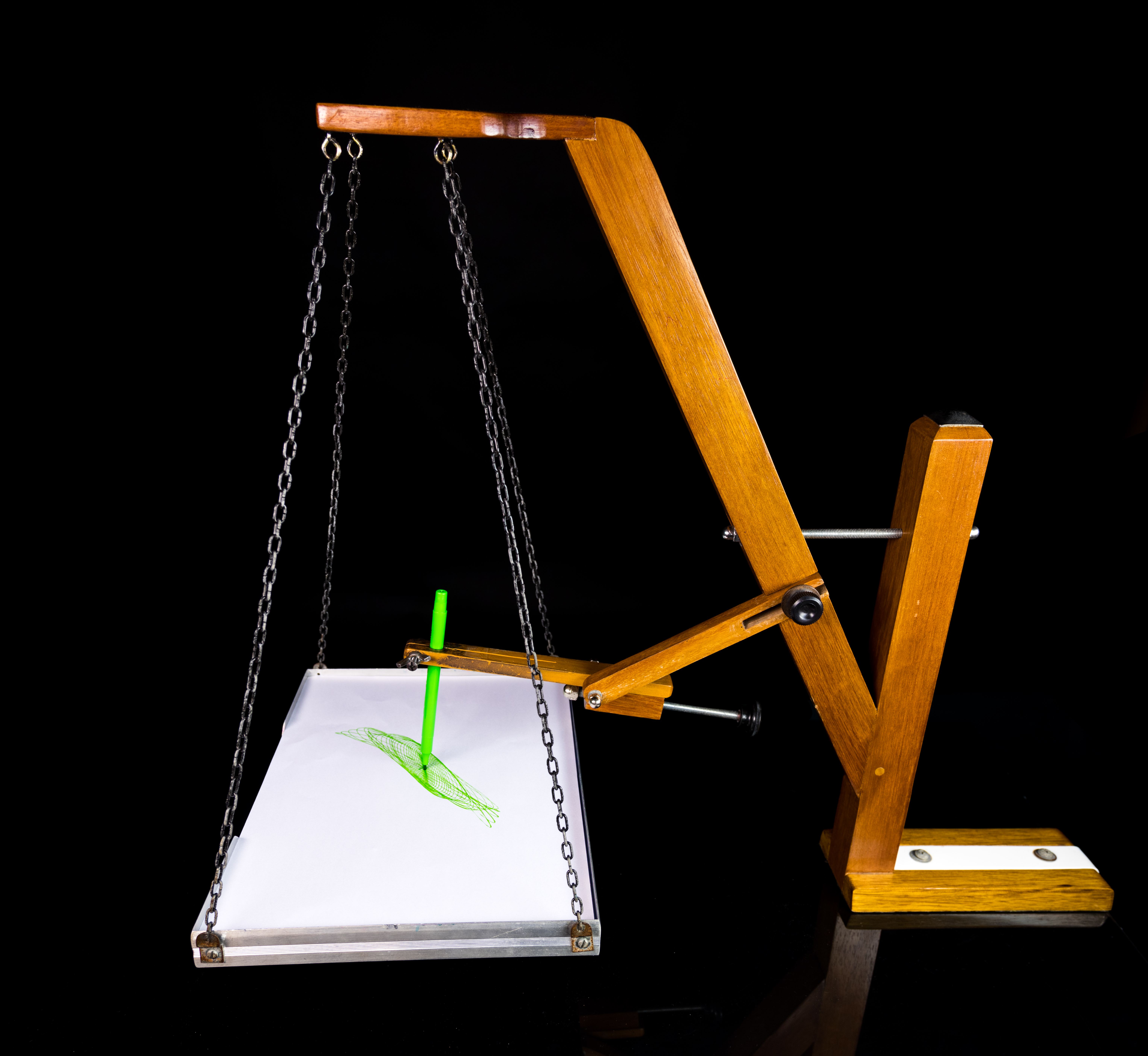 Harmonograph on display at Matemateca IME-USP (pt)